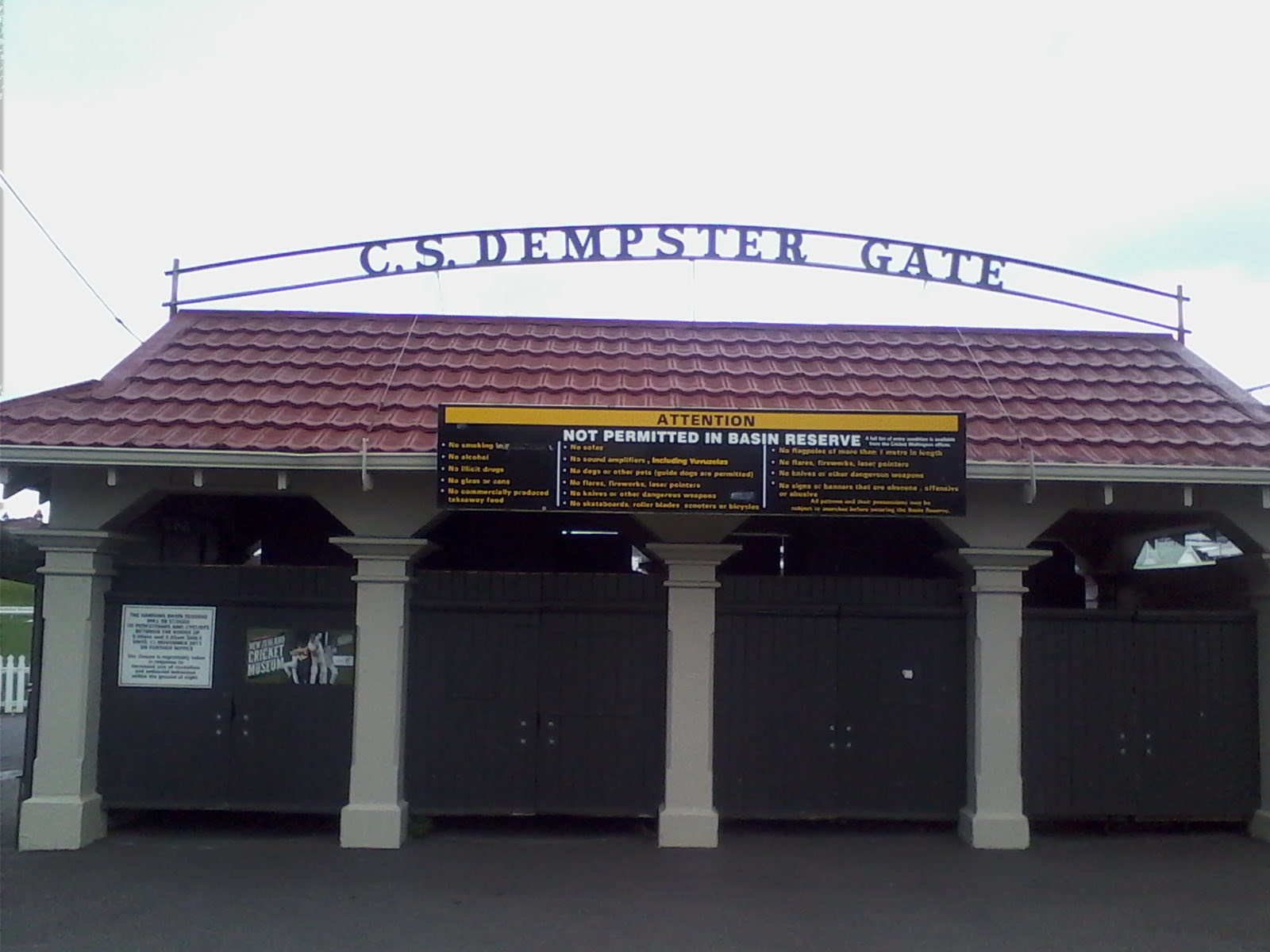 The C.S. Dempster Gate entrance to the Basin Reserve cricket ground, Wellington.